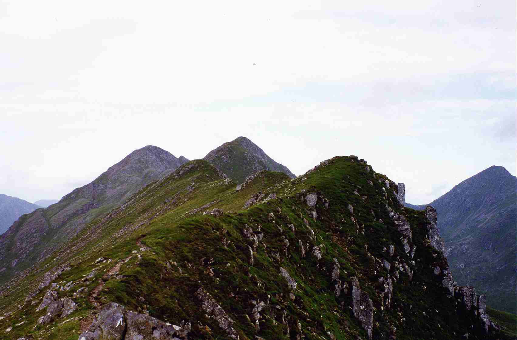 Personal photograph taken by Mick Knapton